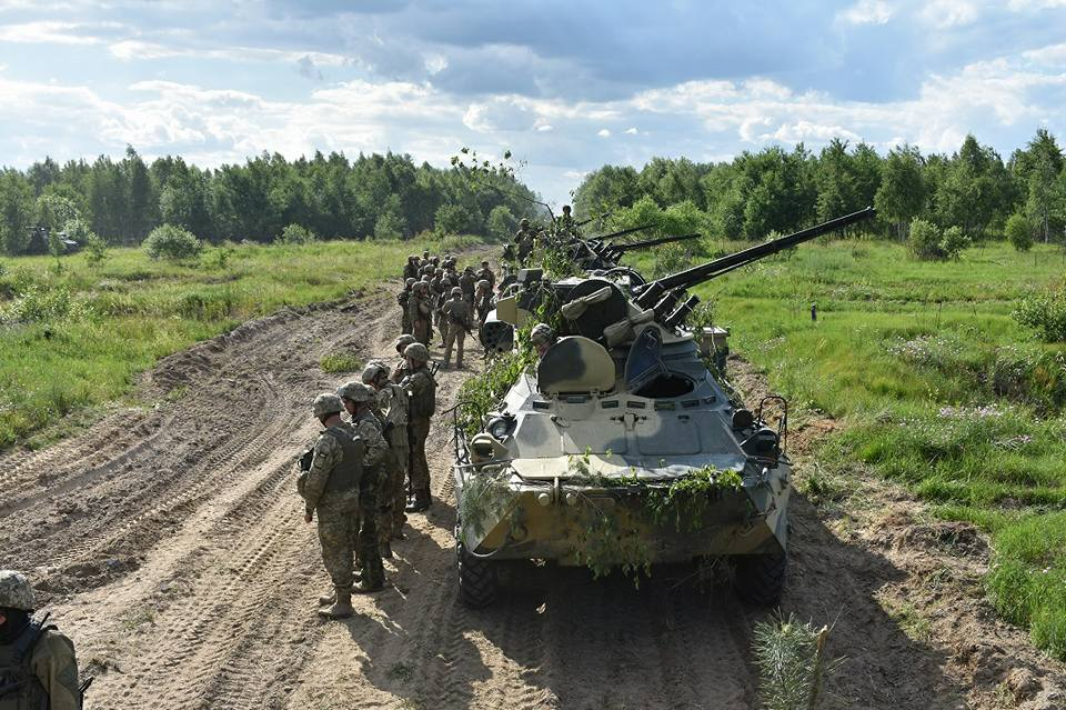 95th Air Assault Brigade training, 2017 (Ukraine)